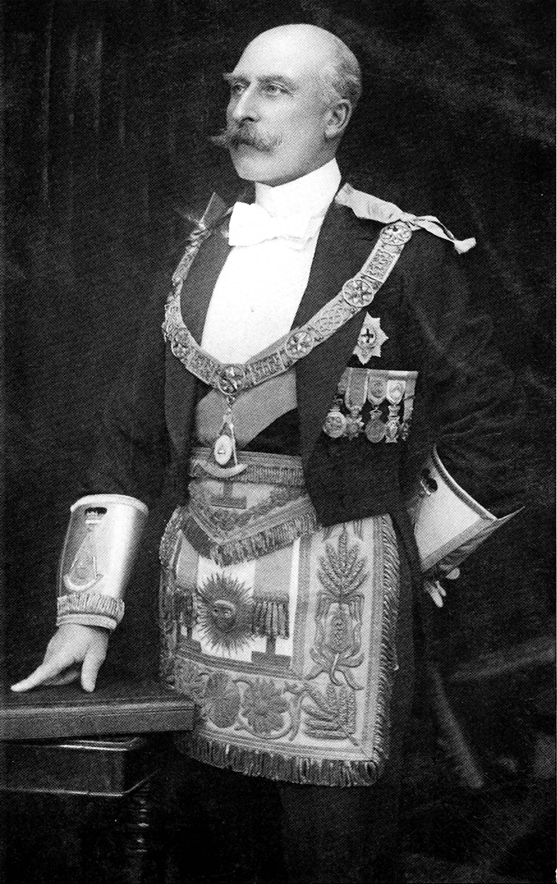 Prince Arthur, Duke of Connaught and Strathearn (1850-1942)